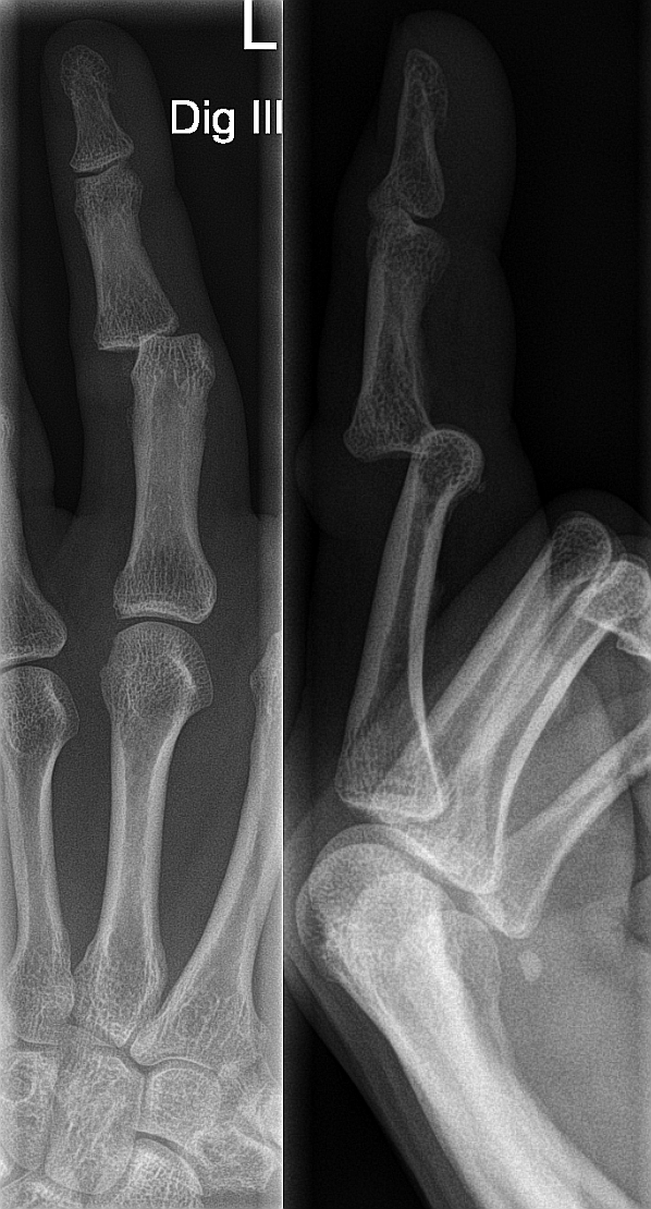 Joint dislocation of the PIP of D3.